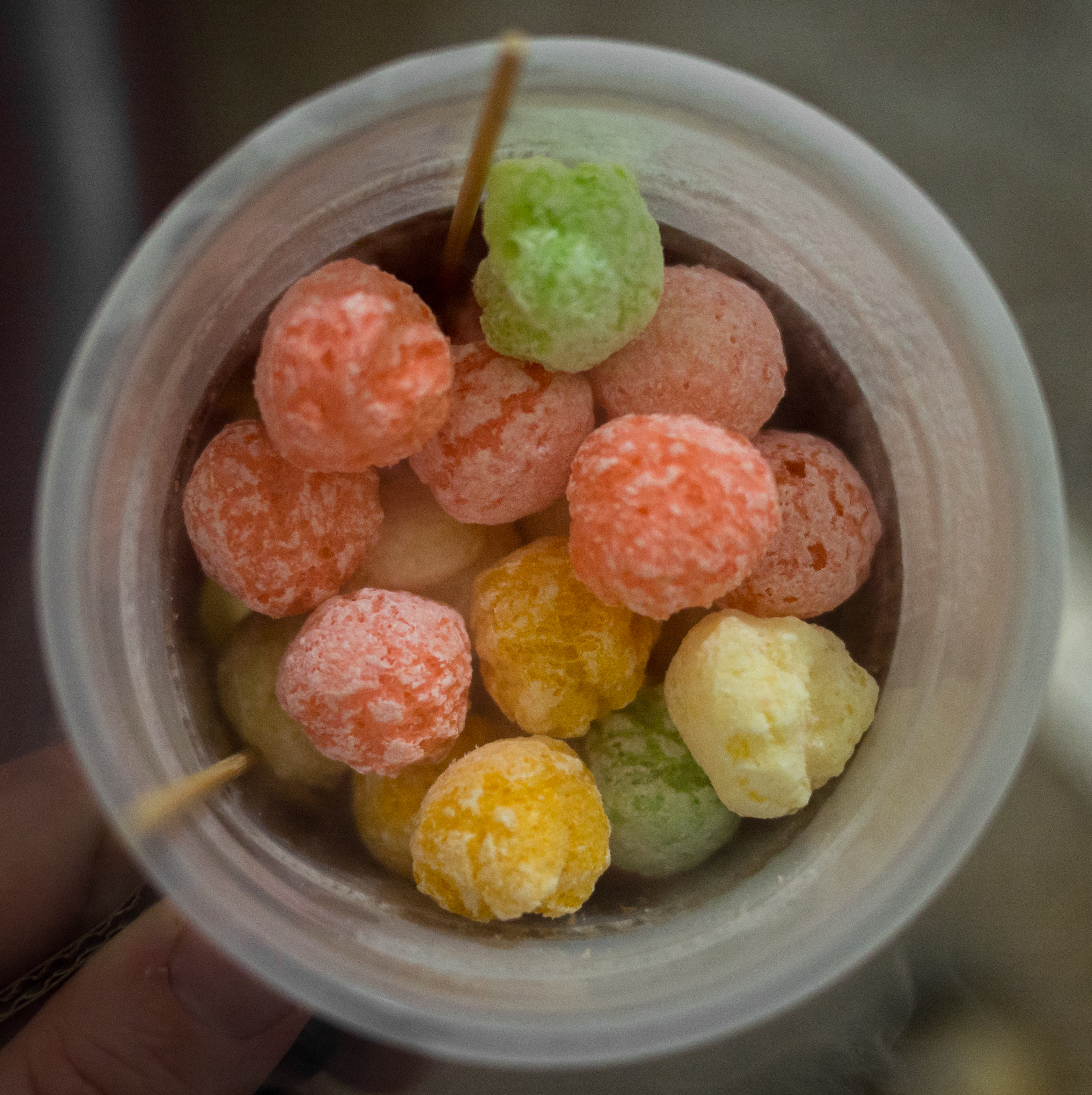 Dragon's Breath, cereal dipped in liquid nitrogen. When eaten, it causes vapor to billow out of the eater's nose and mouth (like smoke from a dragon). At Chocolate Chair in San Francisco's Japantown.